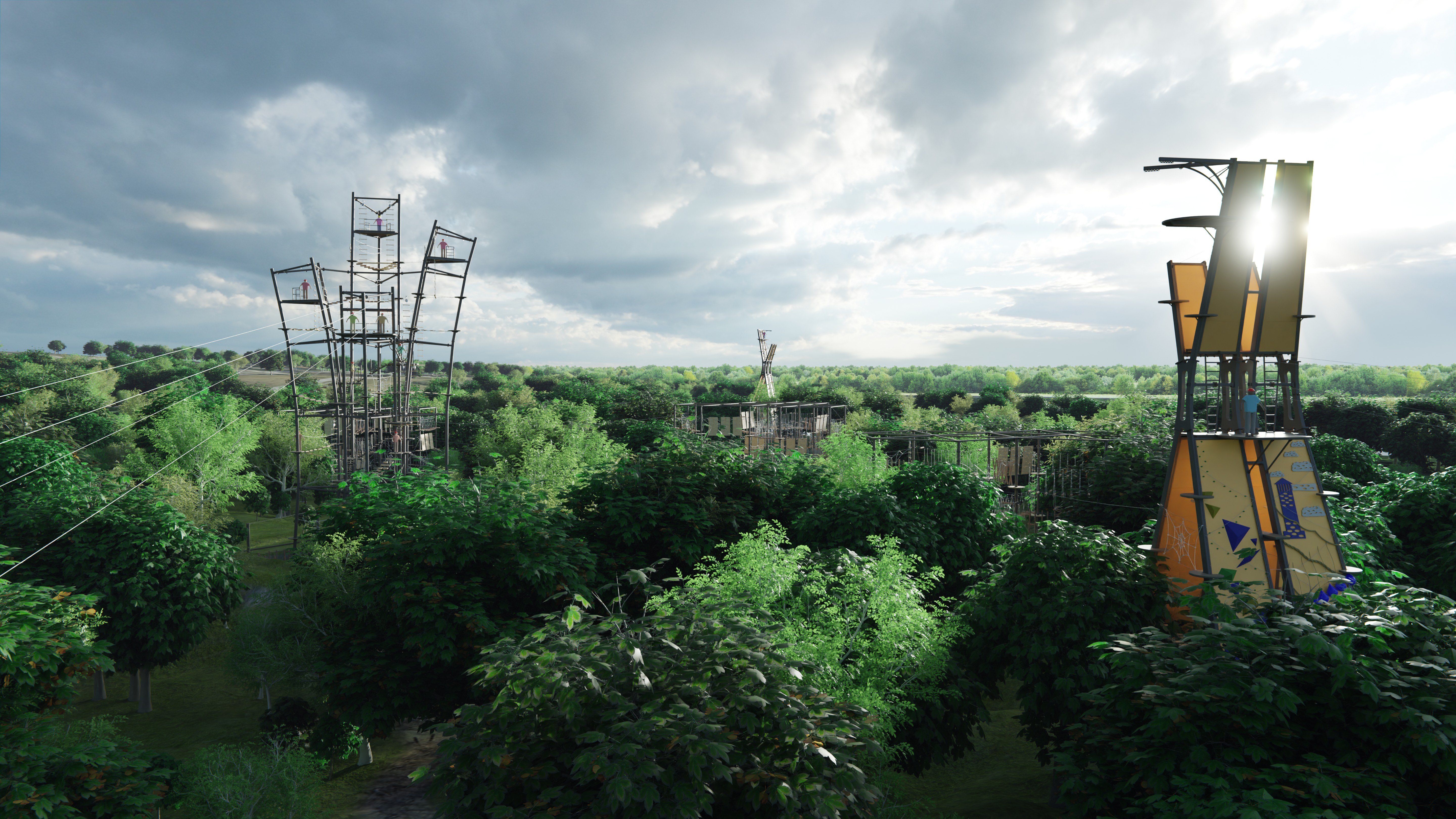 Renderings from Bonsai Construction depicting the 3D models of the climbing tower, ropes course, and zipline.